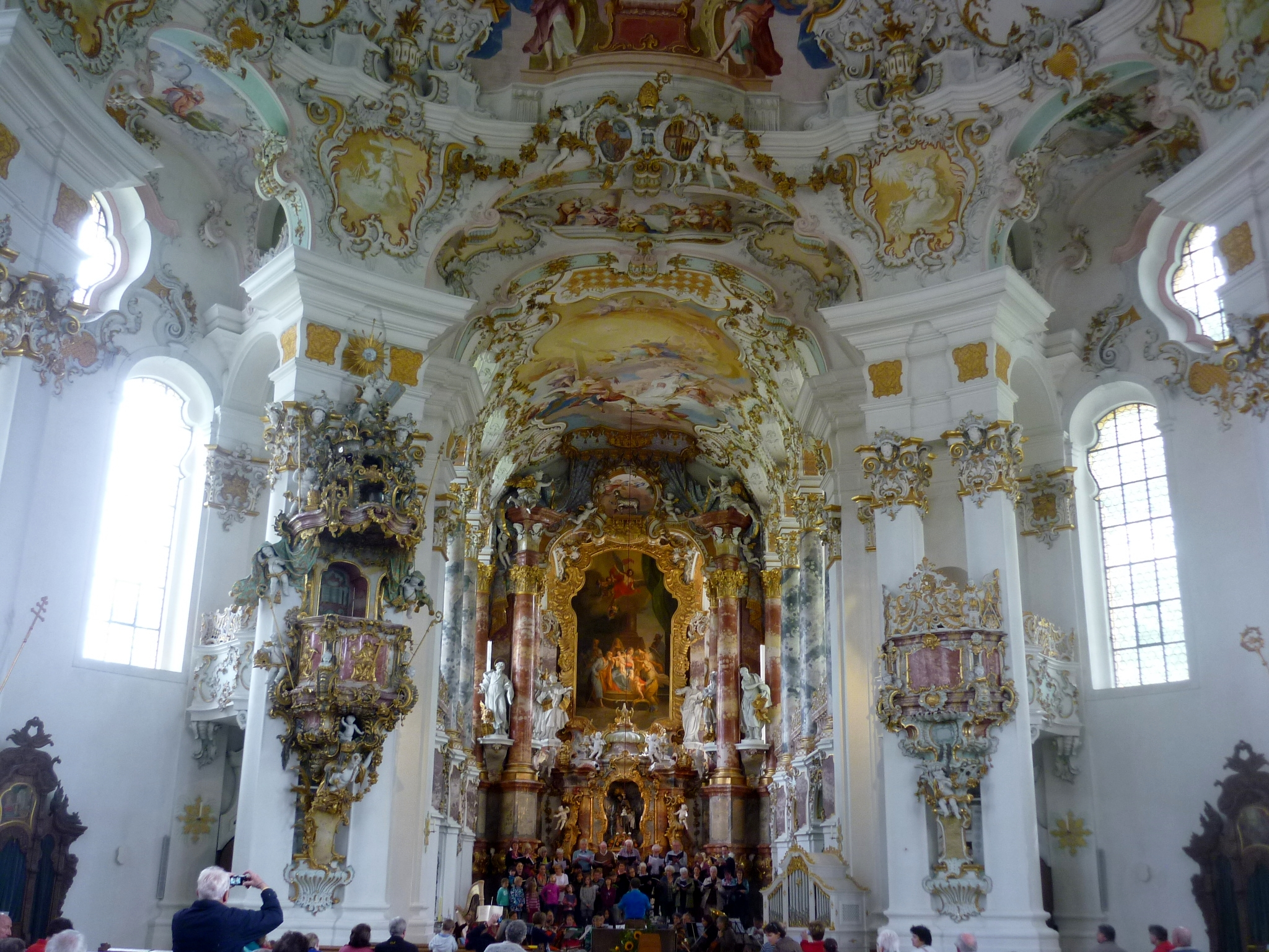 Sanctuary Wieskirche Steingaden